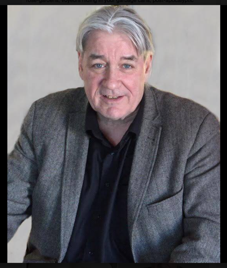 This is a photo I took with the Patrick McGrath's permission during an interview with him over his literature in Denver on 8 March 2015. The existing photo on the Wiki entry (from 2008) was a decade old, and this one will give a more accurate view of author's current appearance. I own the photo, and am happy to share it will all.